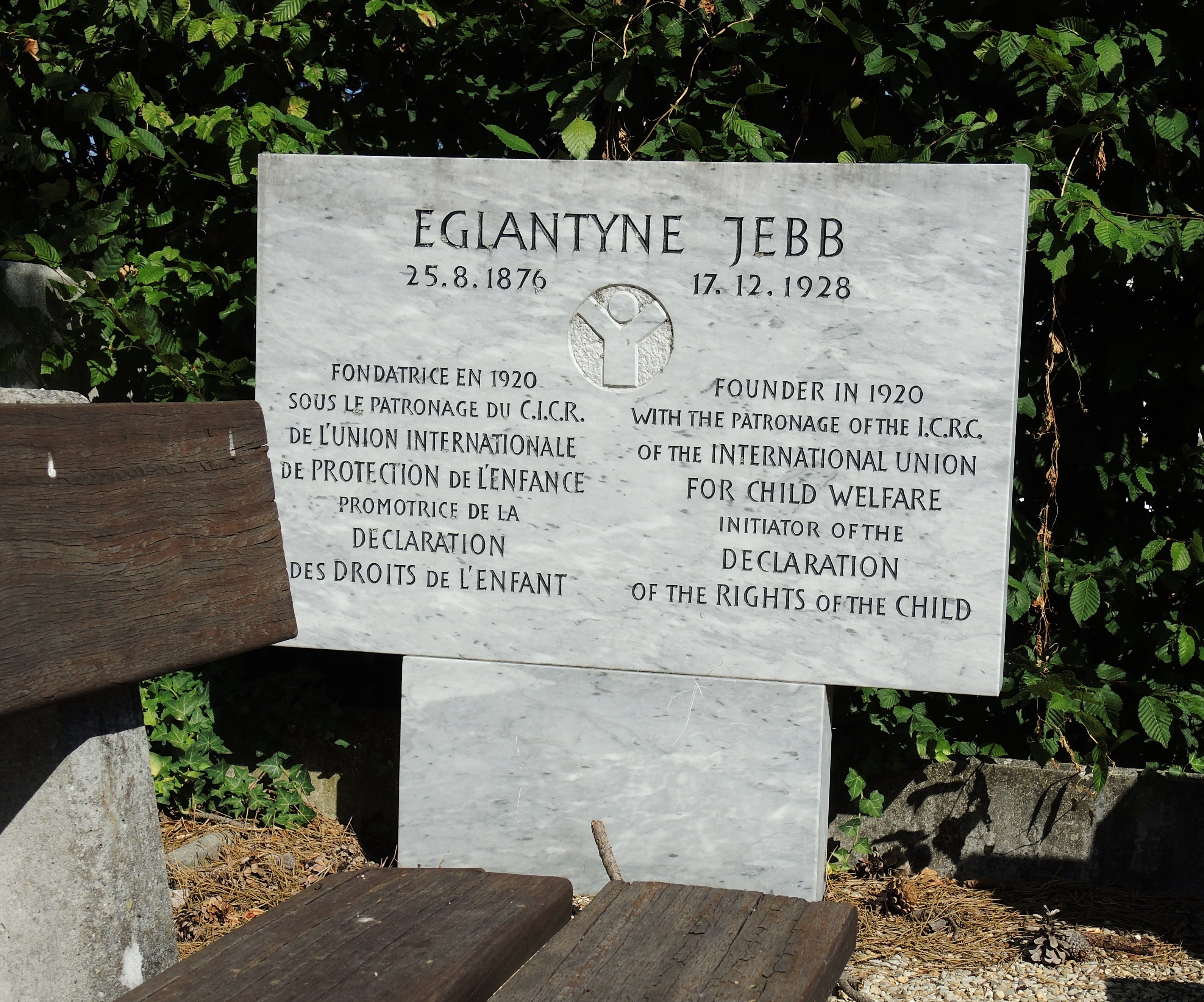 Memorial for Eglantyne Jebb in Geneva